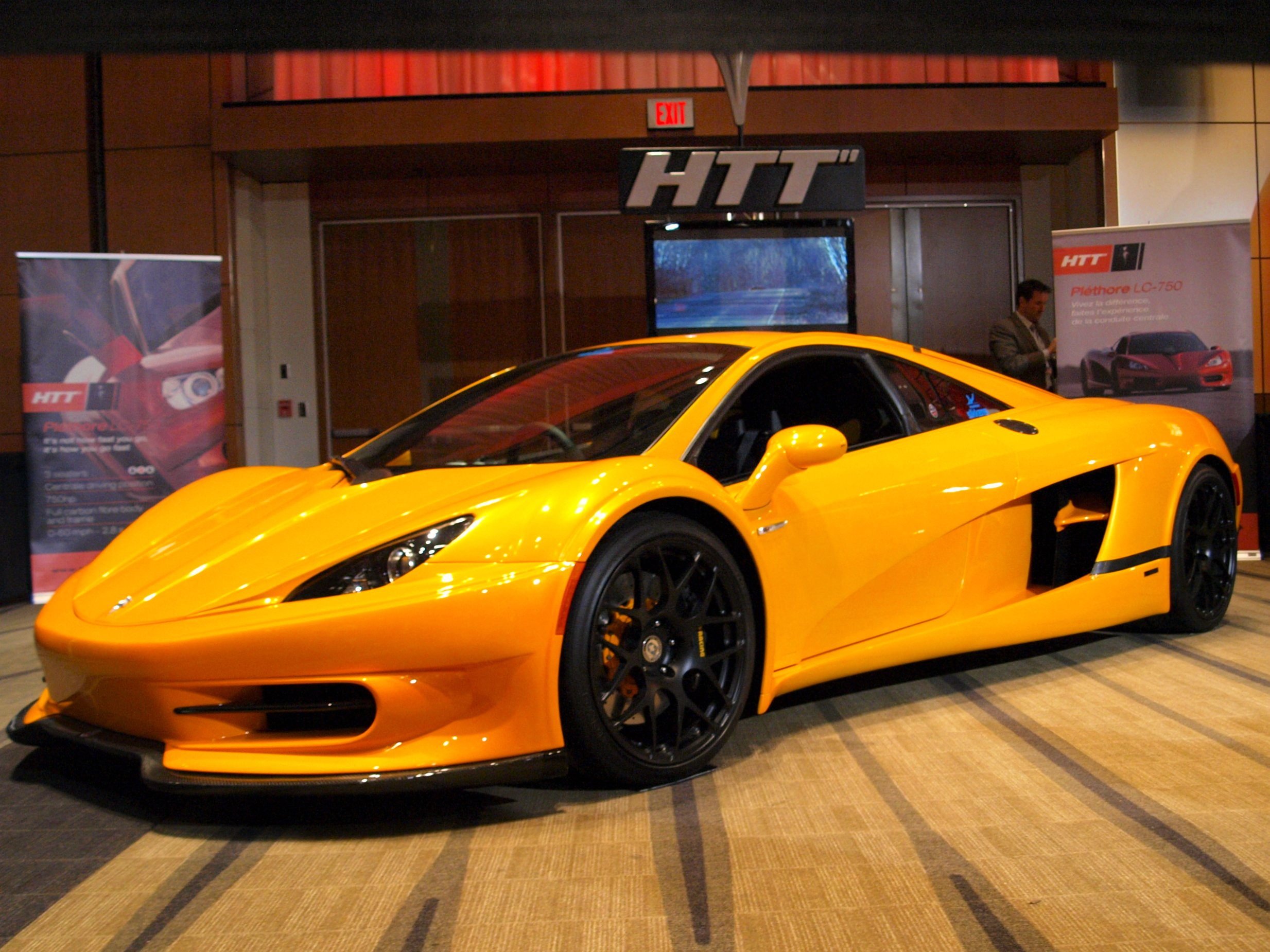 Plethore LC 750